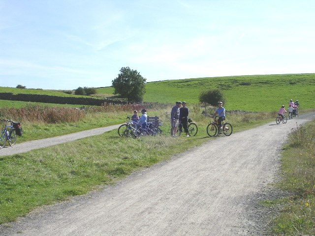 Junction of Tissington & High Peak Trail - Parsley Hay. This is a general view, my other photograph shows the sign post at the junction